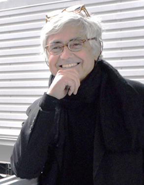 Photo of architect Rafael Viñoly.